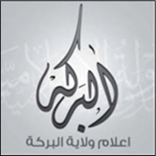 This is the official logo of al-Barakah, a self-proclaimed district (formerly province) of the Salafi jihadist militant group "Islamic State of Iraq and the Levant".